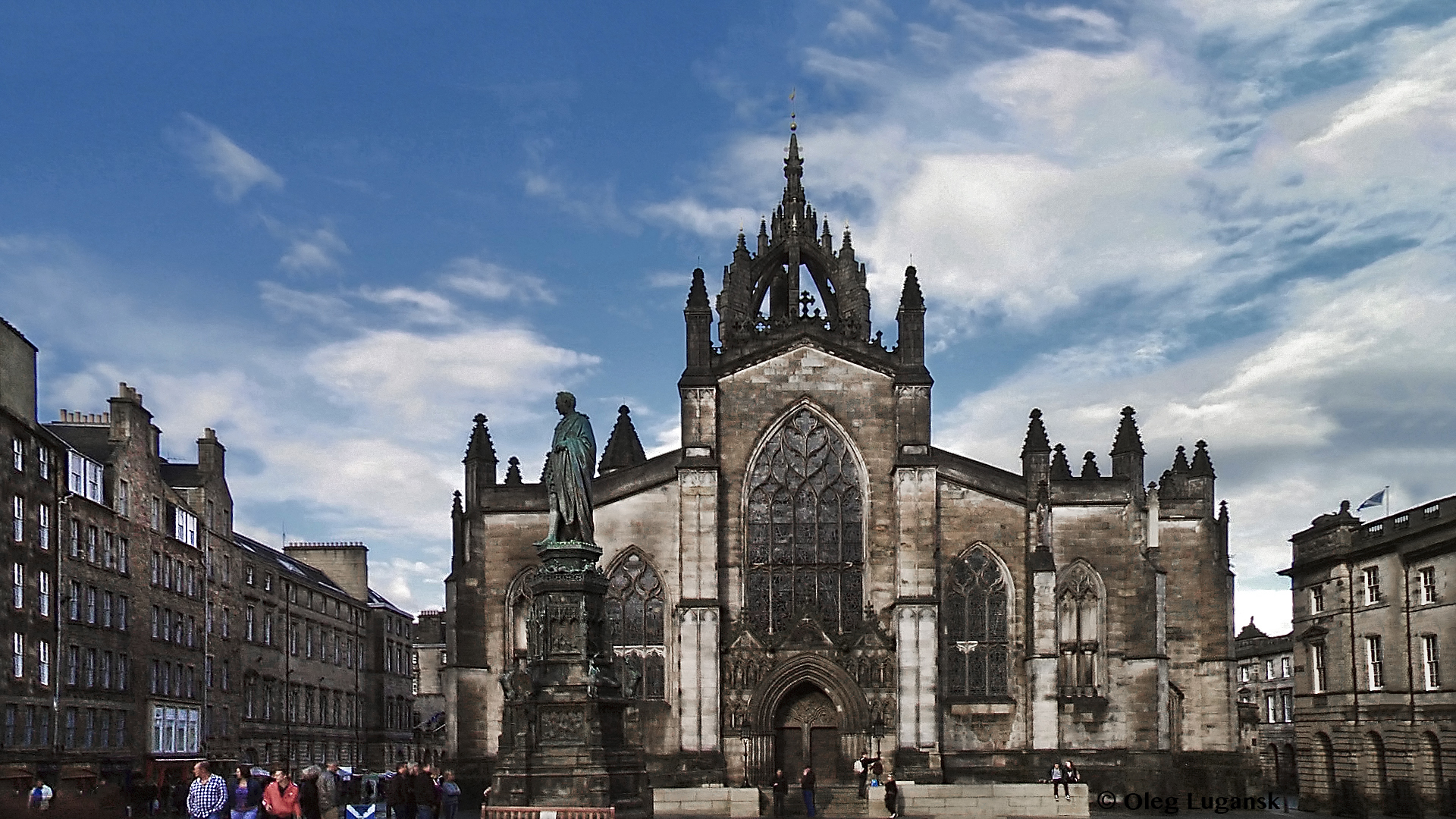 Edinburgh. The Church of St. Giles.